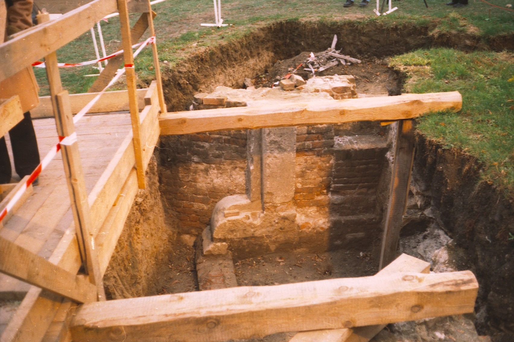 Fragment of Běhounská Gate in Brno, Czech Republic